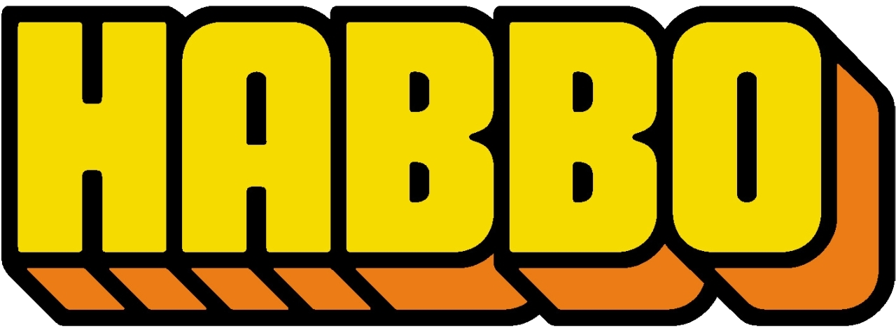 The official logo of Habbo